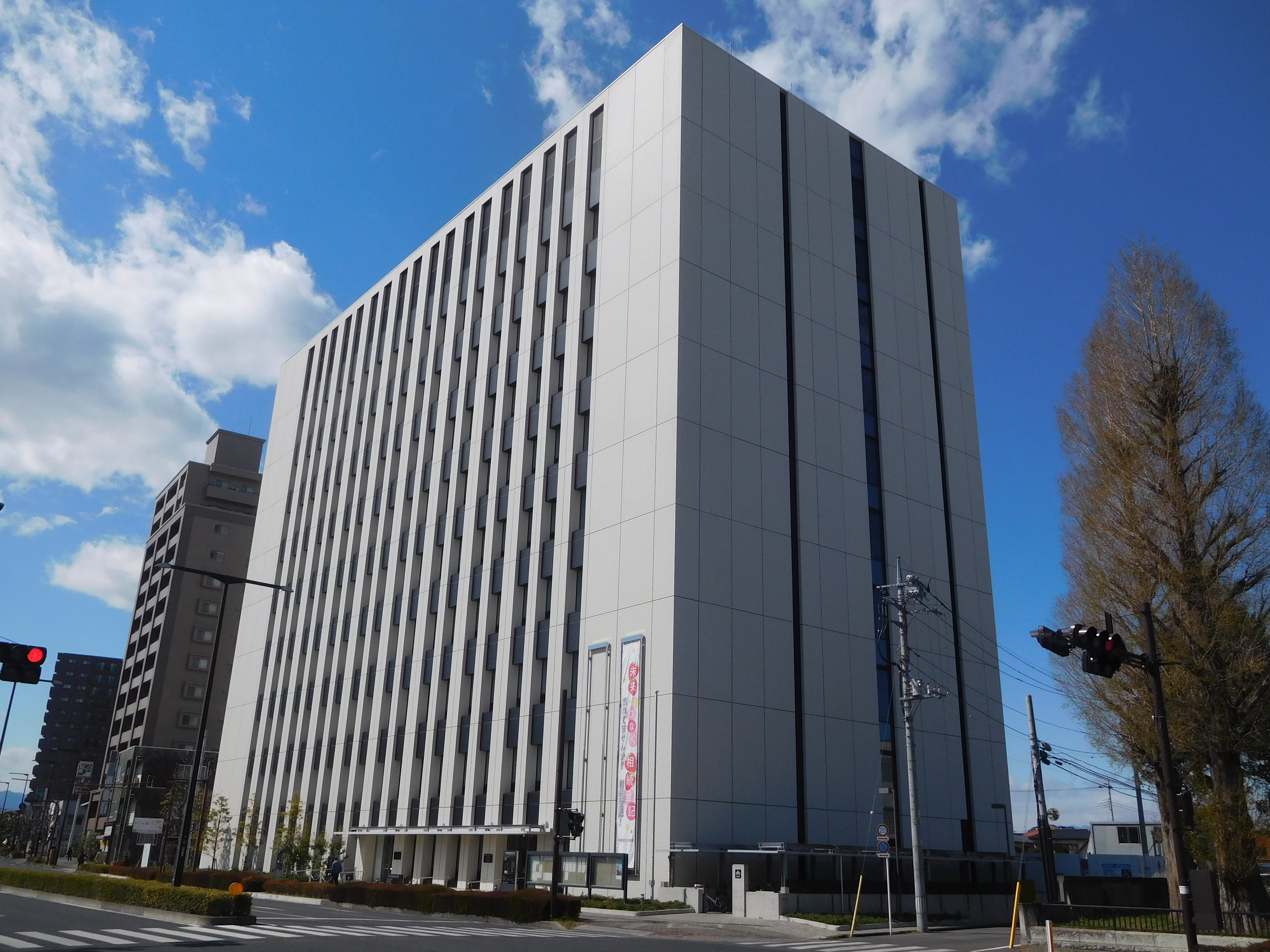 This is Utsunomiya Legal Affairs General Building in Utsunomiya, Tochigi, Japan. It has legal affairs bureau, public prosecutor’s office, probation office and so on.